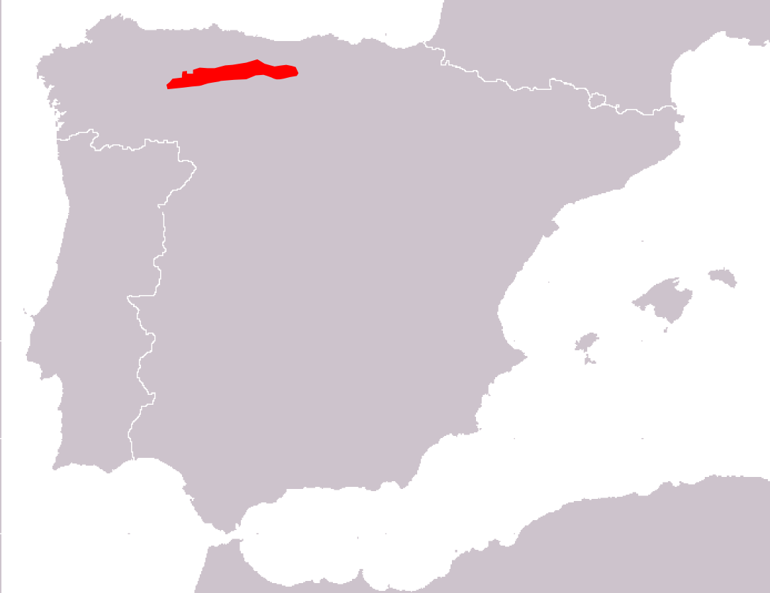 Distribution range map of Lepus castroviejoi.